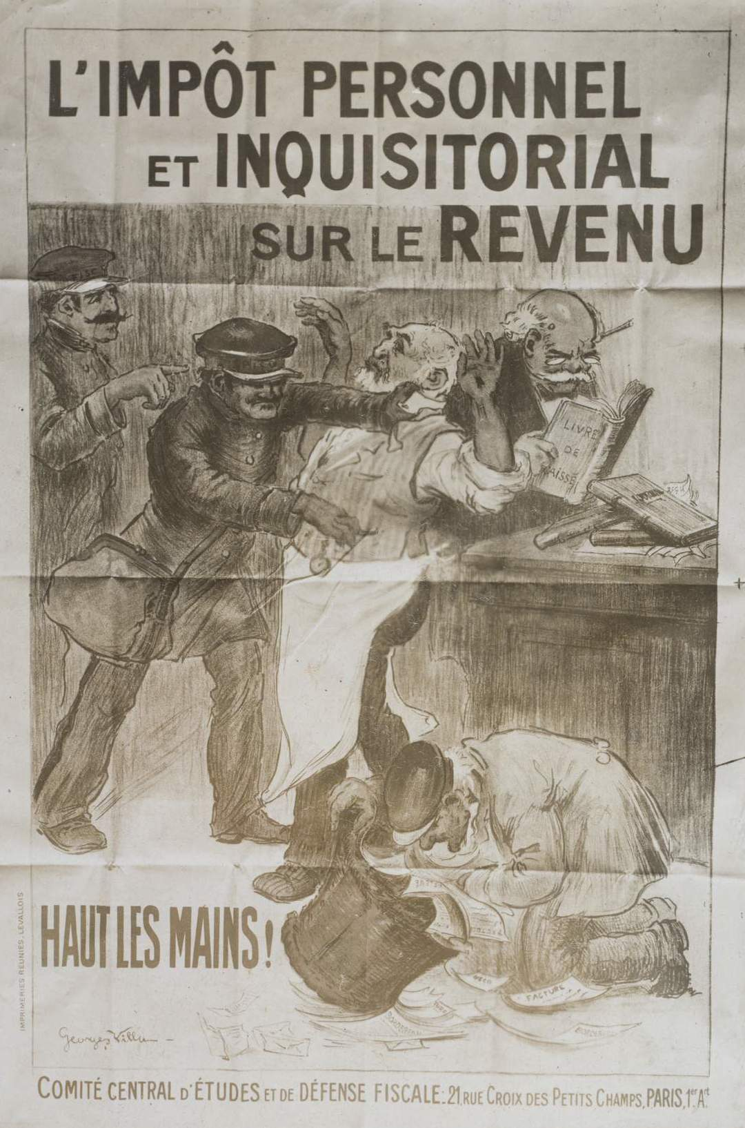 Affiche placardée sur les murs de Paris. L'impôt inquisitorial sur le revenu.